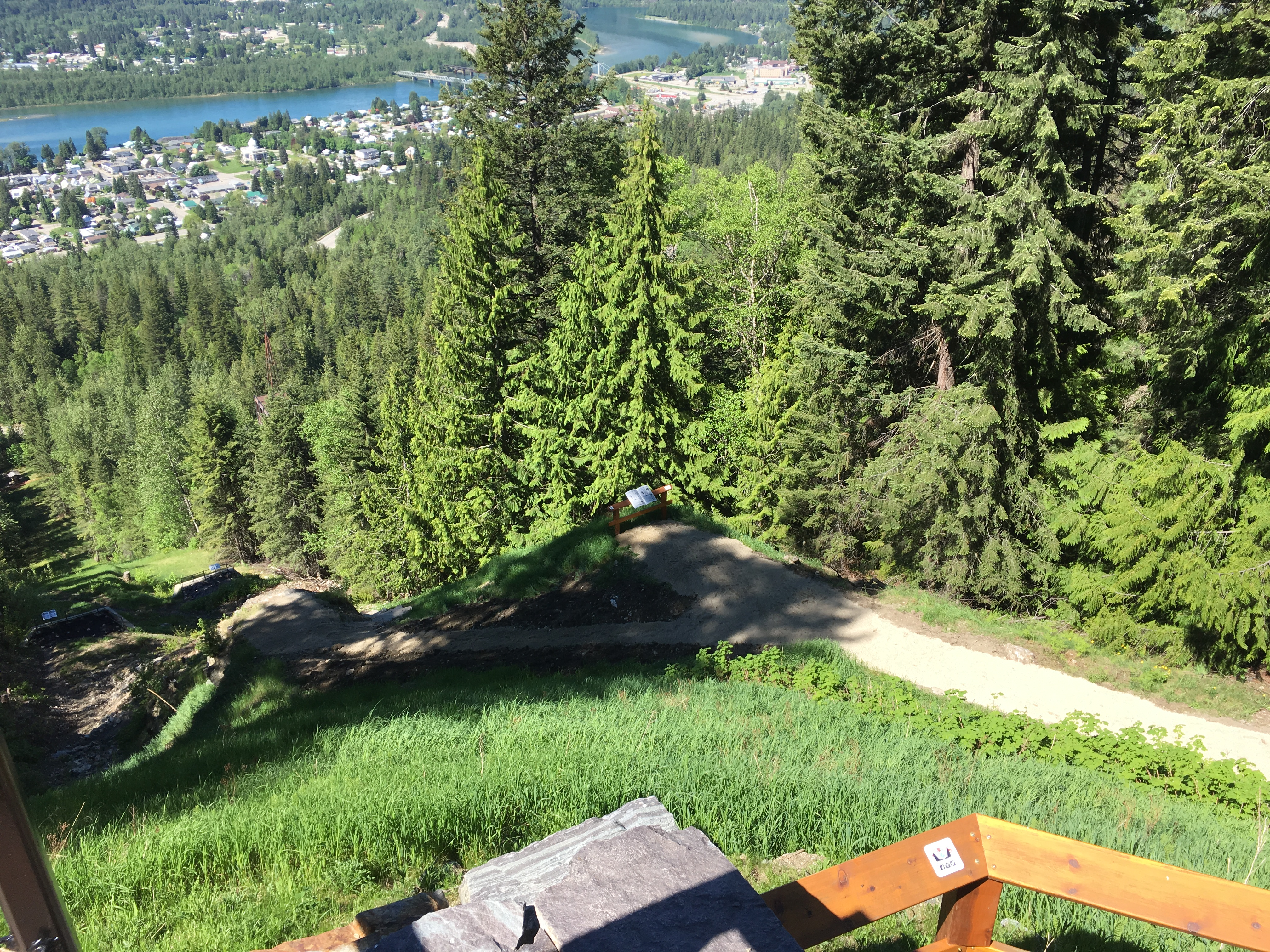 Nels Nelsen Ski Jump